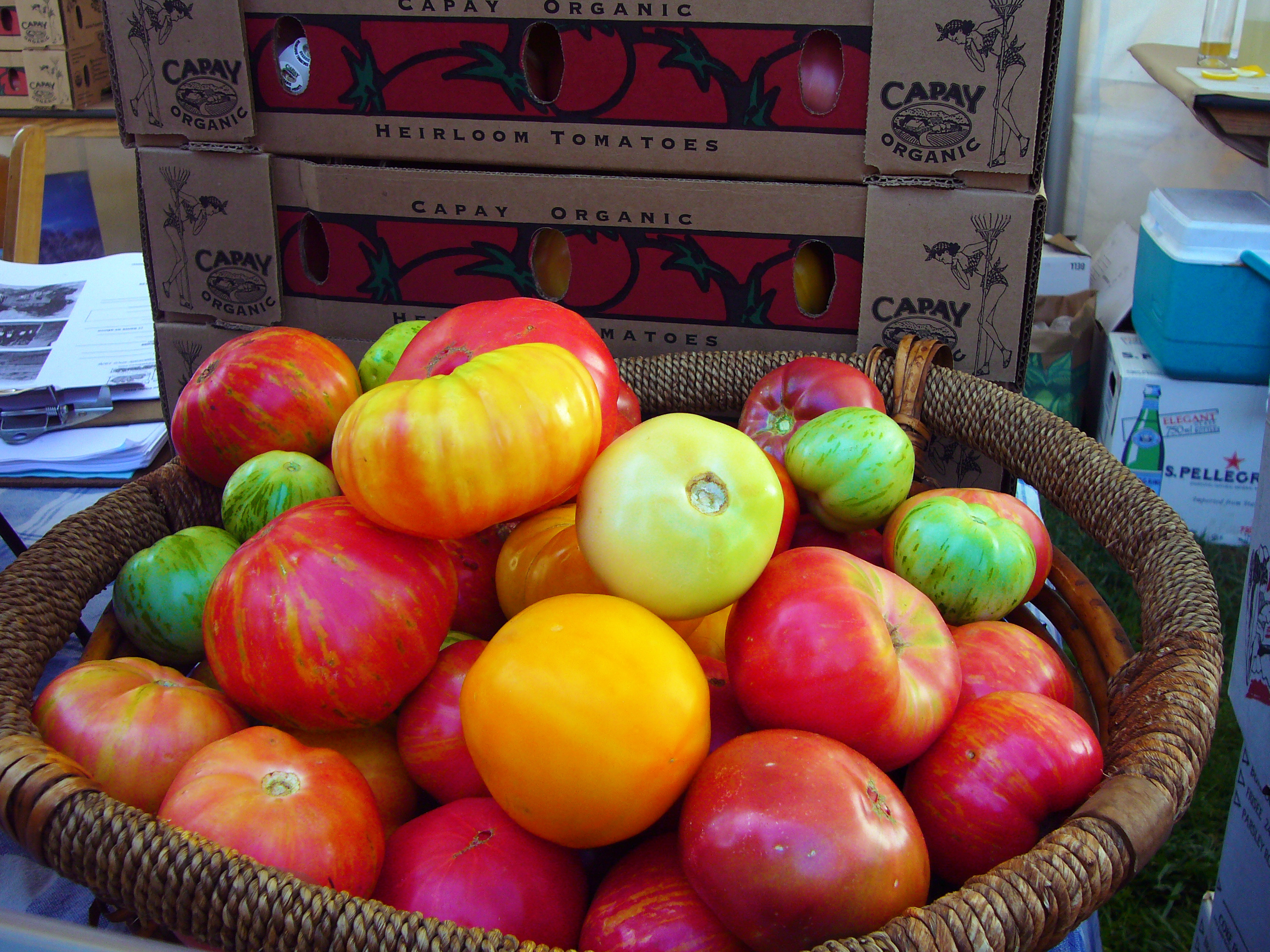 Organic Heirloom tomatoes at Slow Food Nation's garden.